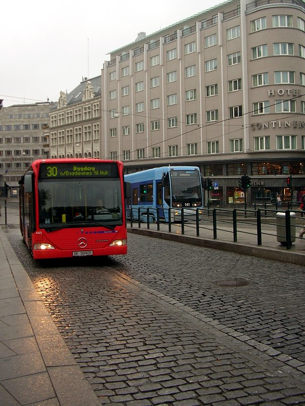 City communications in Oslo (Norway). Here is the bus/tram-stop outside Nationaltheateret stasjon. Mercedes-Benz Citaro bus.